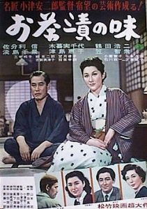 Movie poster for 1952 Japanese movie Tea Over Rice (お茶漬けの味, Ochazuke no aji).